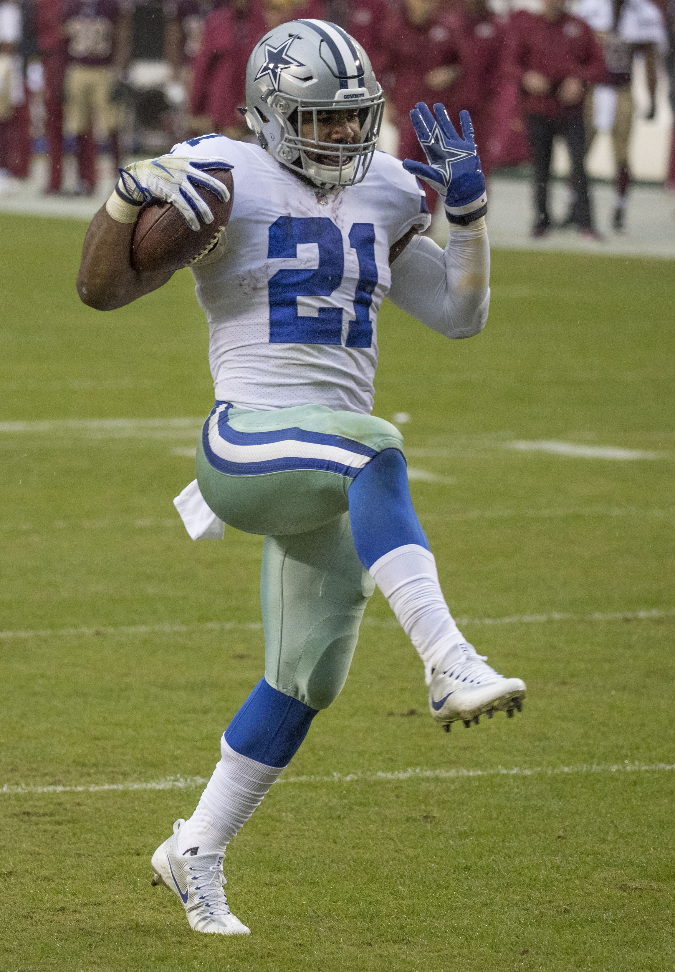 Cowboys at Redskins 10/29/17